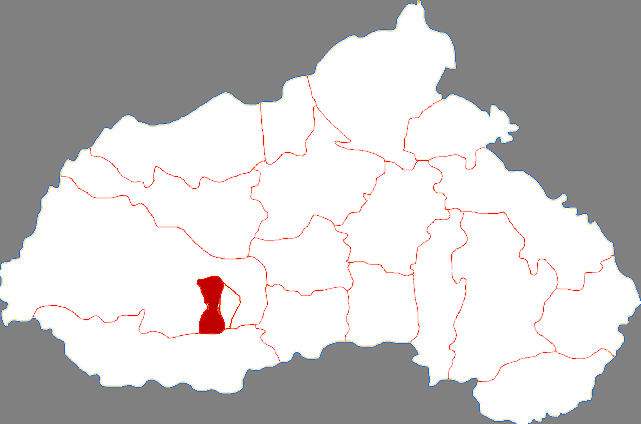 Location of Qiaoxi district in Xingtai City, China